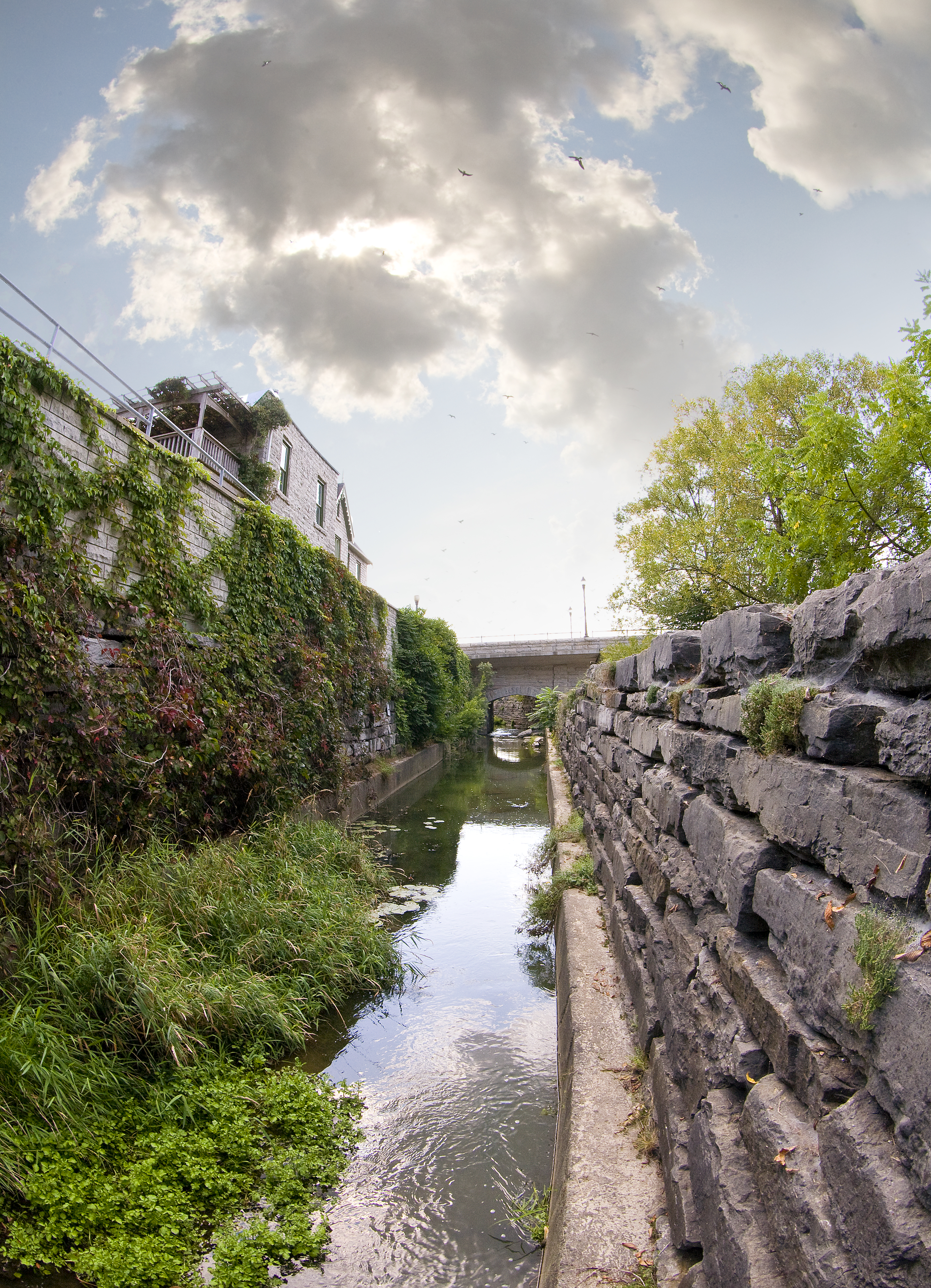 The Mill Race was constructed in 1864 of large, locally-quarried course limestone blocks, to form a channel alongside the Thames River, to provide power to local mills.